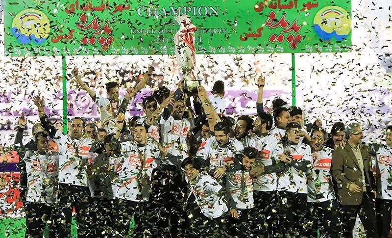 Tractor Sazi players celebrating winning Hazfi Cup